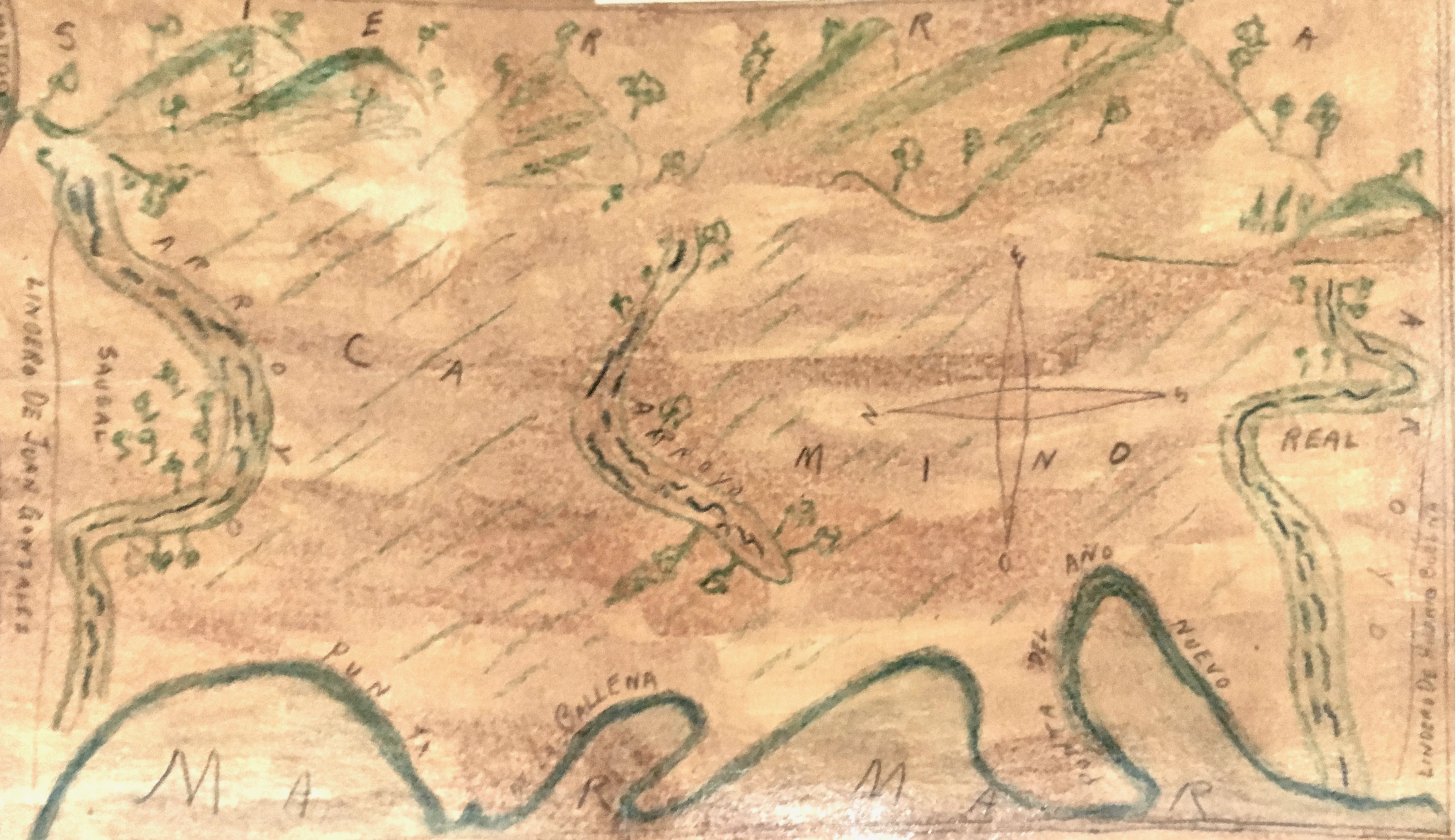 The grant extended along the Pacific coast from Rancho Butano and Arroyo de los Frijoles on the north, past Pigeon Point, Franklin Point to Point Año Nuevo on the south (may be a copy of the original diseño)